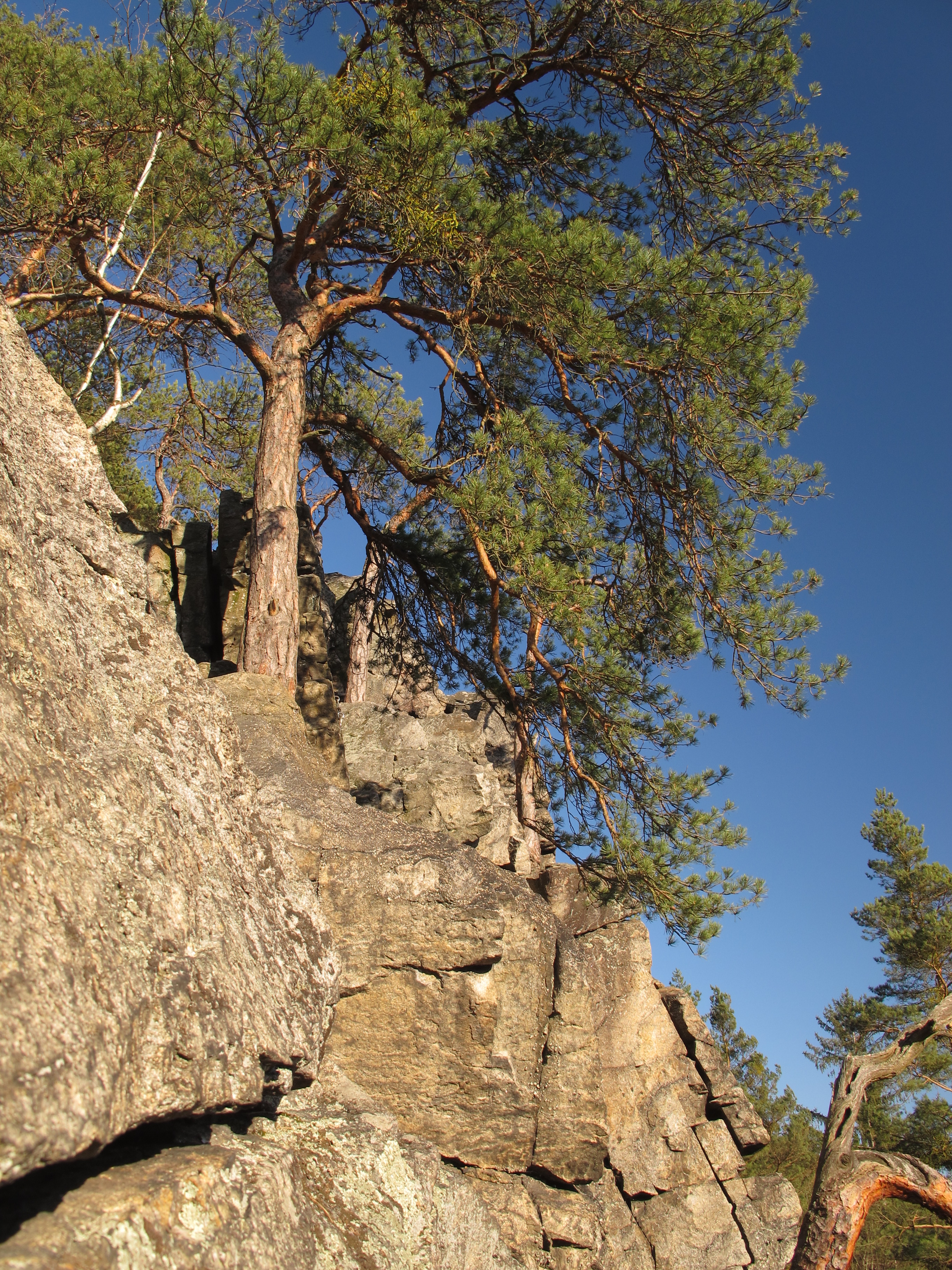 Pinus sylvestris on gneiss rocks near Vltava river, Southern Bohemia